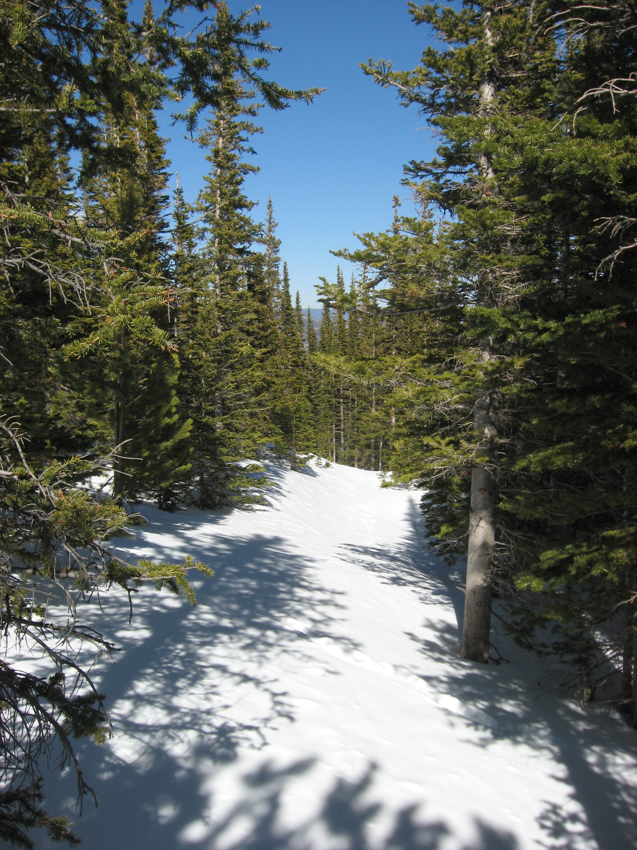 Along the Flattop Mountain Trail at about 11,000 feet (3,350 metres) in eastern Rocky Mountain National Park, in Larimer County southwest of Estes Park, Colorado, United States. The trail, which reaches the Continental Divide, is listed on the National Register of Historic Places.